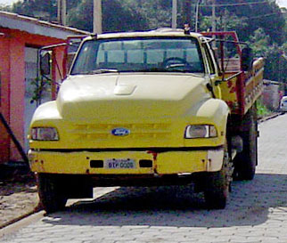 A Ford F12000/14000 in the Rua Pe Ditino Della Parte, Itanhaém, Brazil